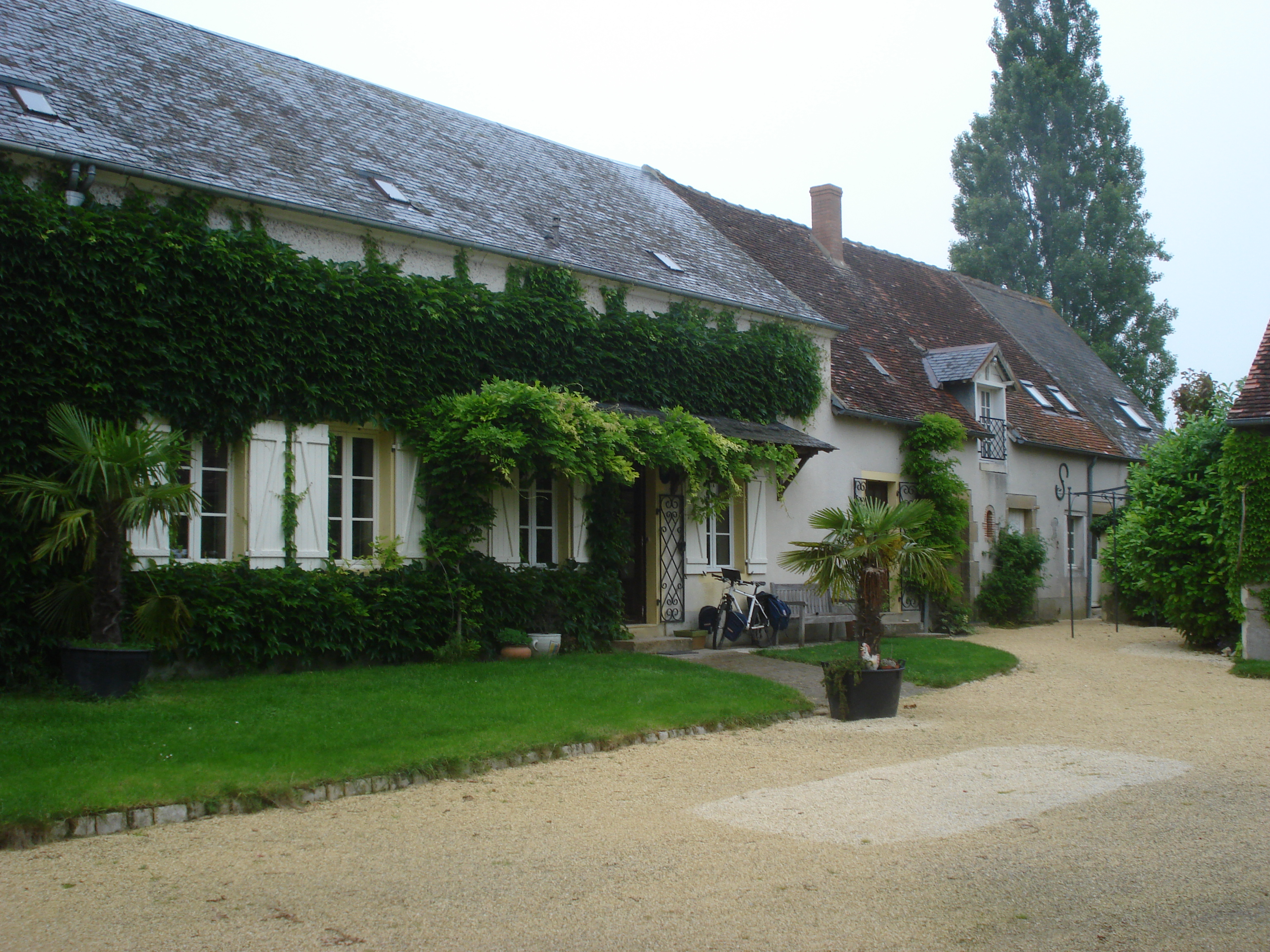 Farmhous at La Chapelle, (Solerieu), municipalitiy of Gron, Cher, Fr